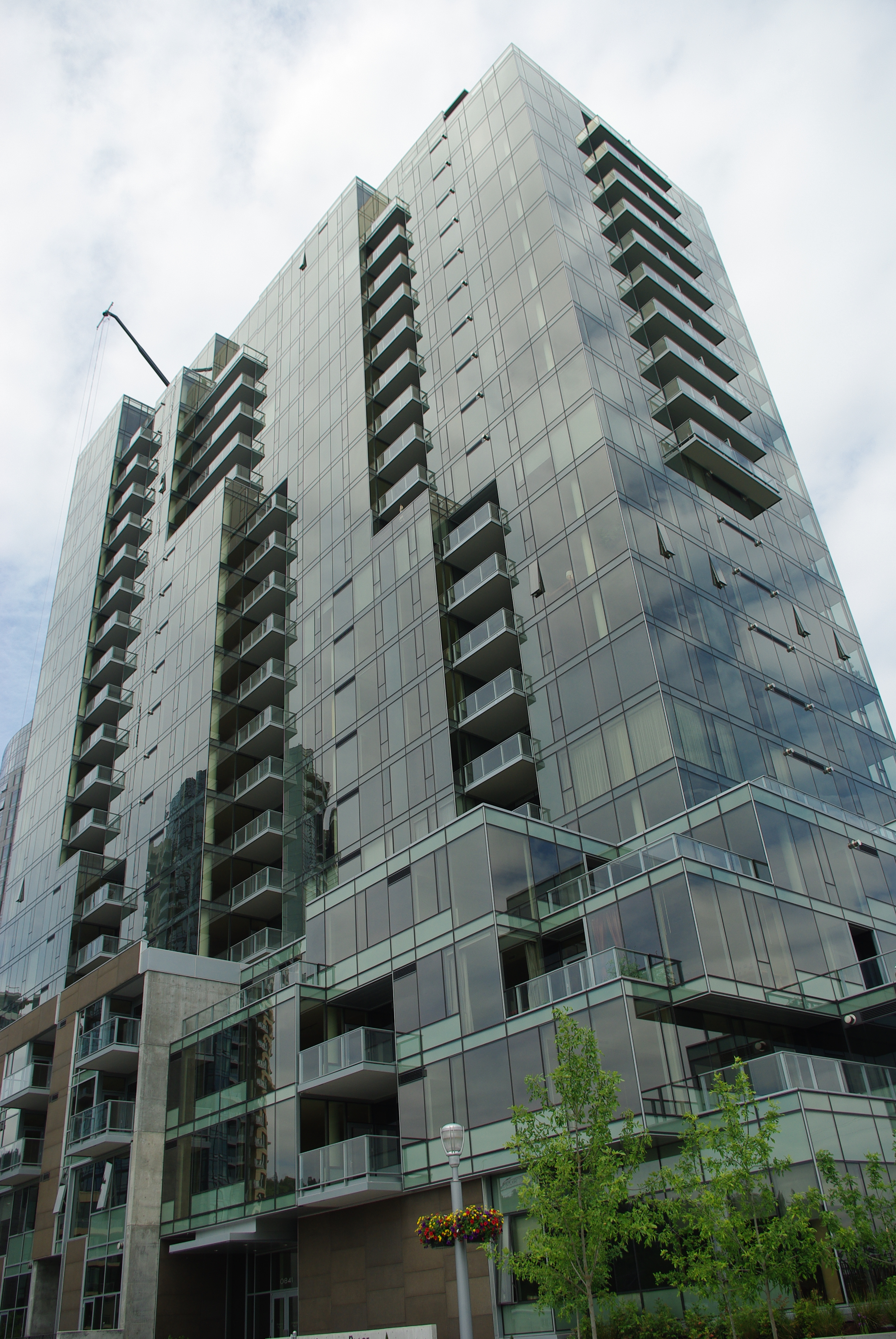 Side view of Atwater Place in Portland, Oregon.